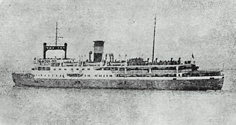 SS Kiangya, sunk in 1948